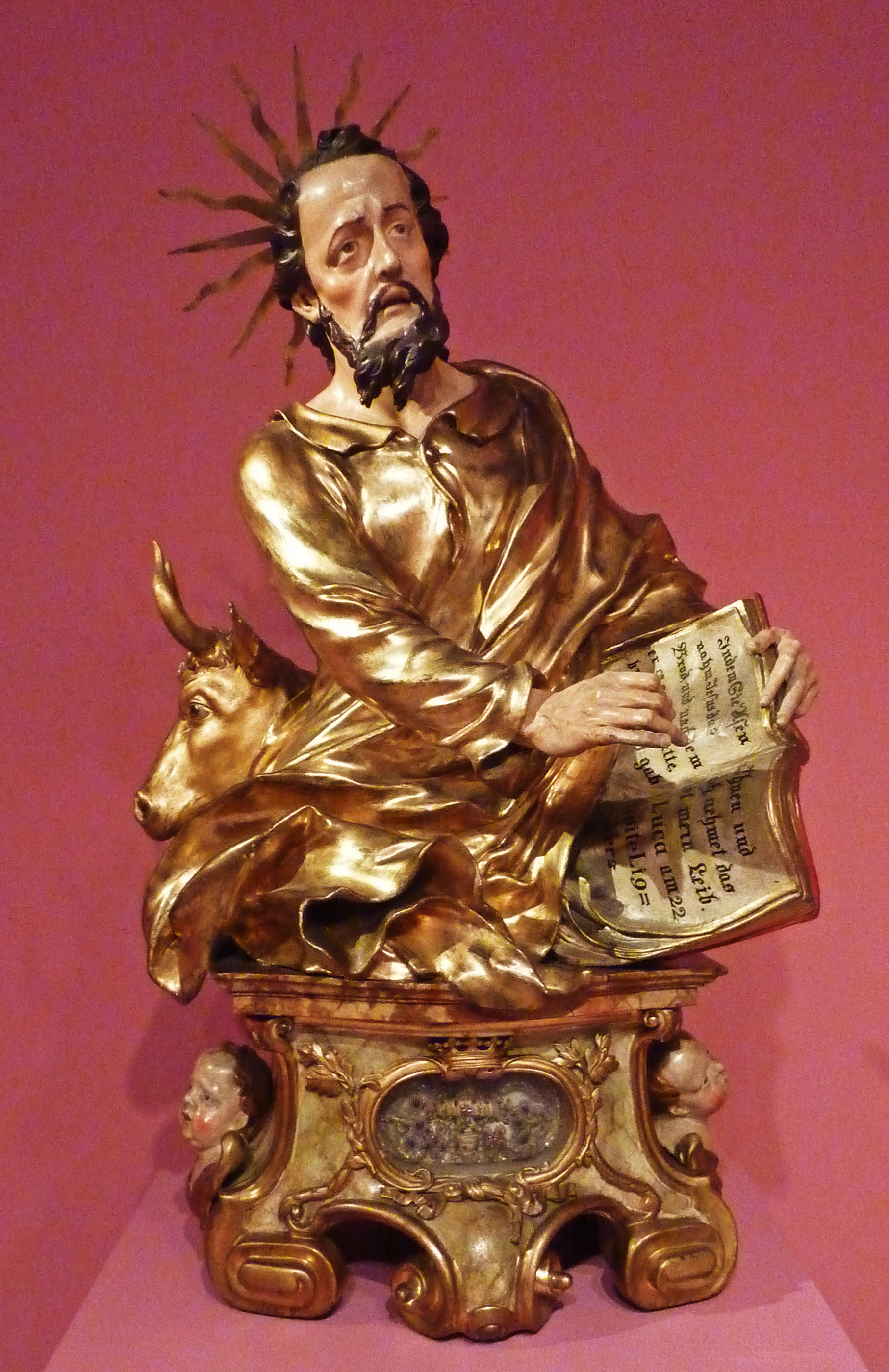 Reliquary bust of the Freiburg painters guild